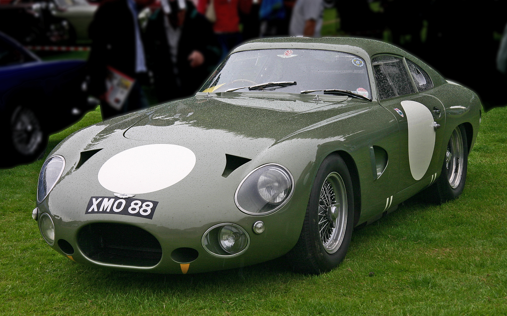 Aston Martin DP215. Built on a DB4GT chassis only a single DP215 was built and raced at Le Mans in 1963. There was a 4-litre Tadek Marek 326bhp engine under the bonnet.